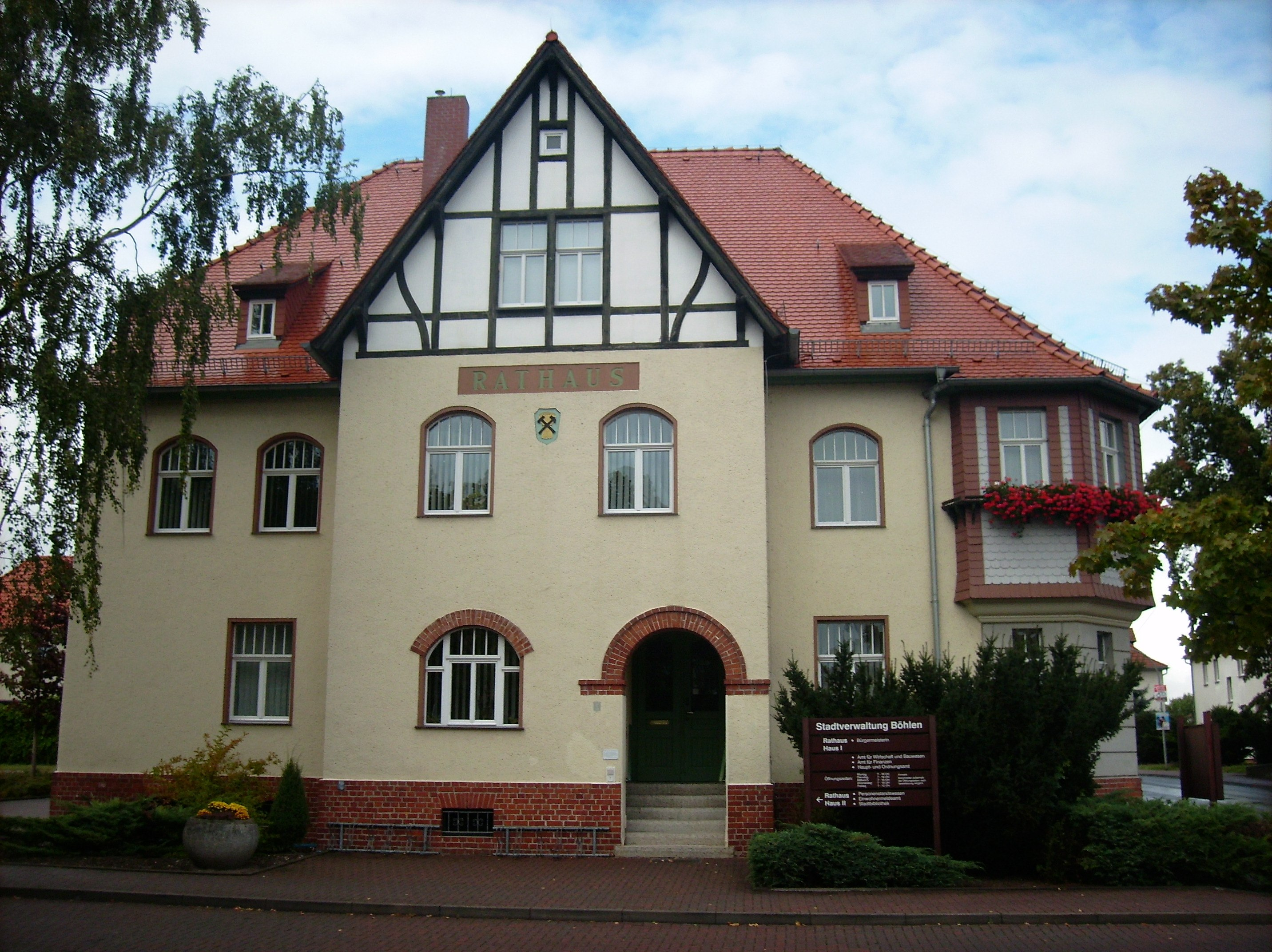 Town hall in Böhlen (Leipzig district, Saxony)